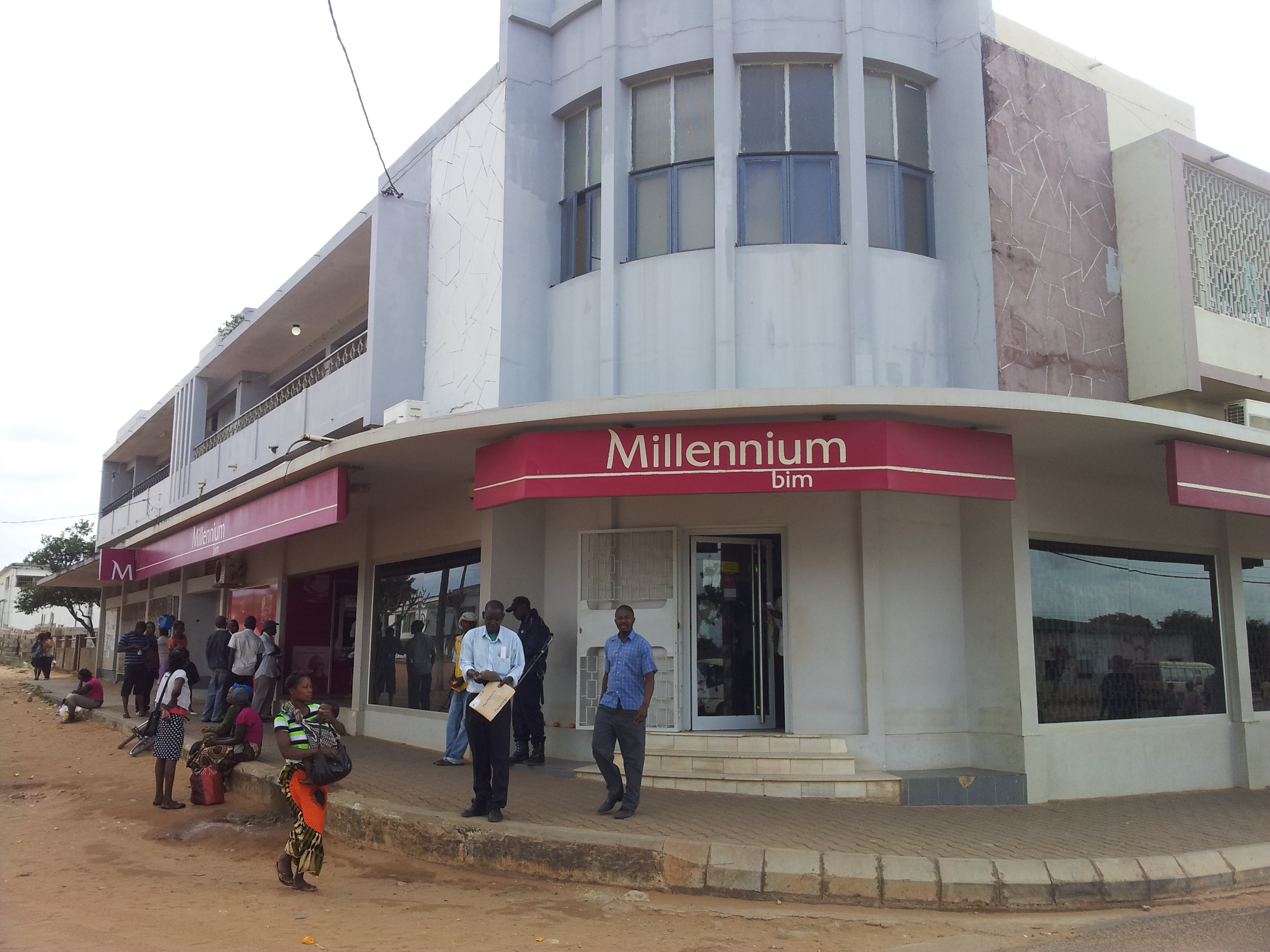 Millenium BIM branch in Massinga, Mozambique